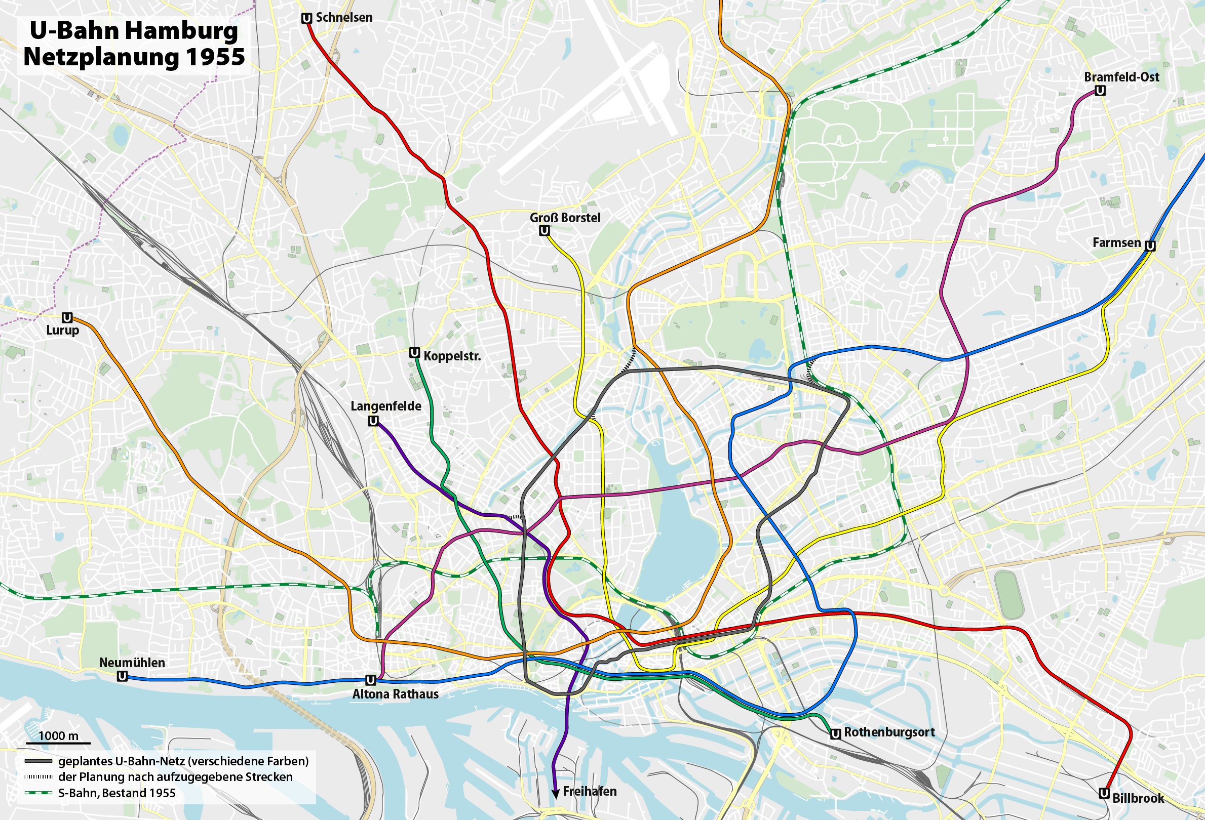 Hamburg U-Bahn: planned network in 1955 This map may be incomplete, and may contain errors. Don't rely solely on it for navigation.